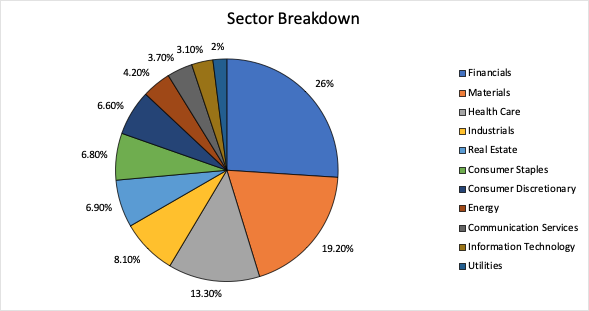 Sector weights